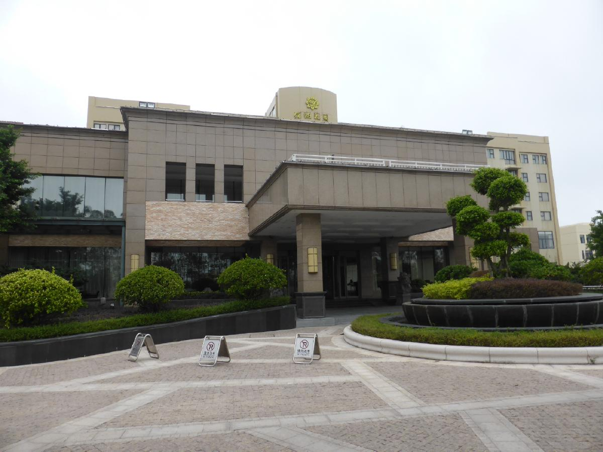 Fuzho Airport Hotel